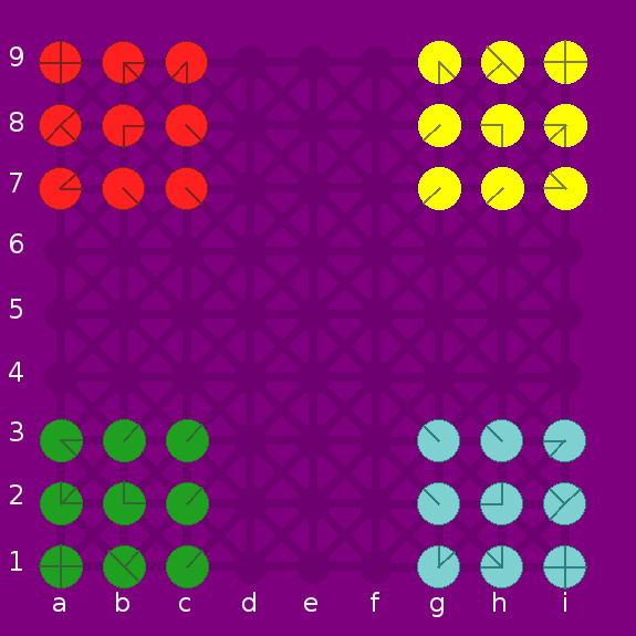 Ploy configuration - four player game